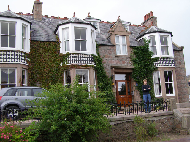 Kilmarnock Arms Hotel in Cruden Bay This is the place where novelist Bram Stoker stayed, when he wrote the novel on Count Dracula, inspired by the nearby atmospheric setting of the ruined Slains Castle. I inspected the hotel guest register from the year 1894 and found the author's original signature.